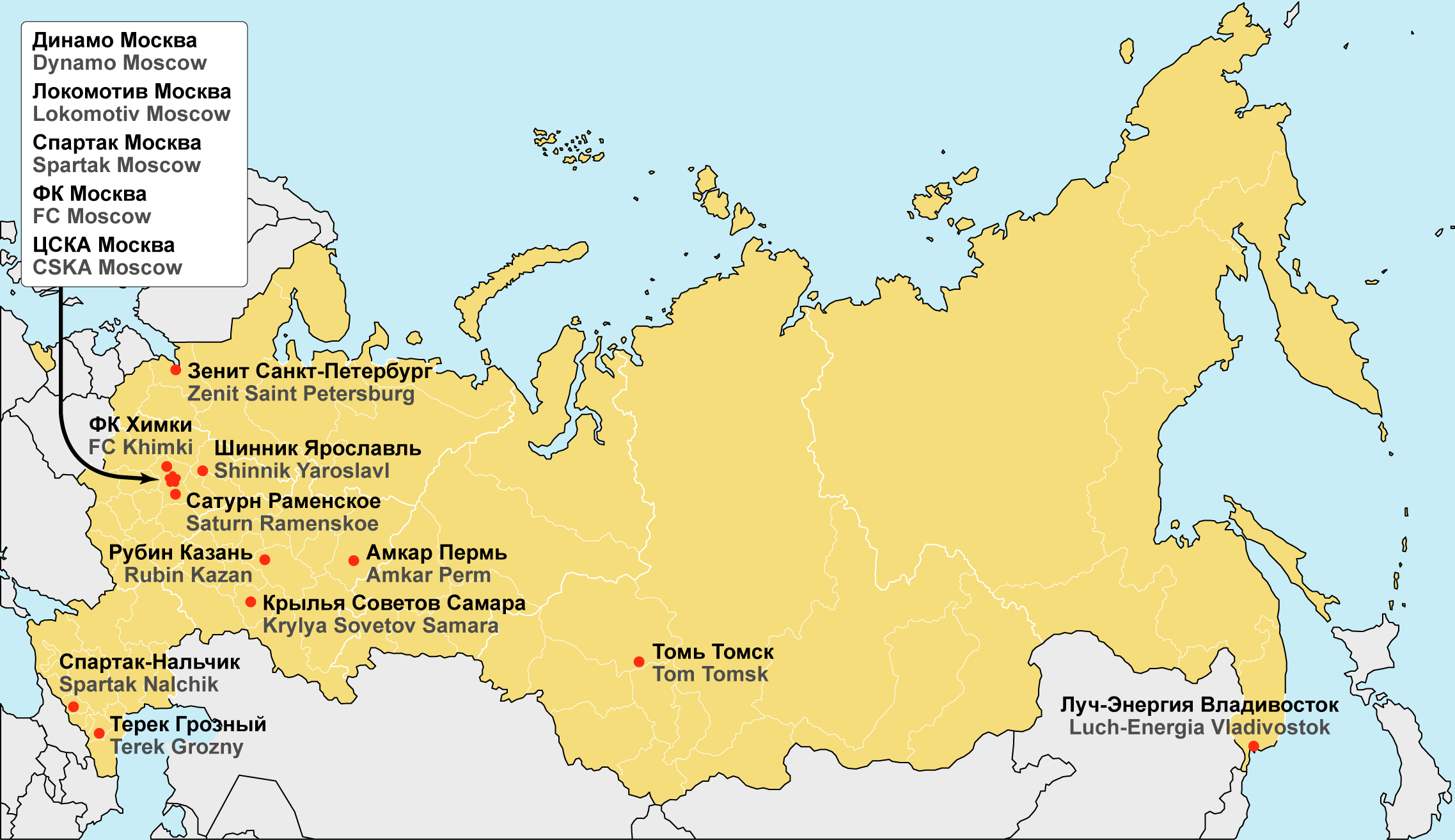 Teams of the Russian Premjer-Ligue 2008